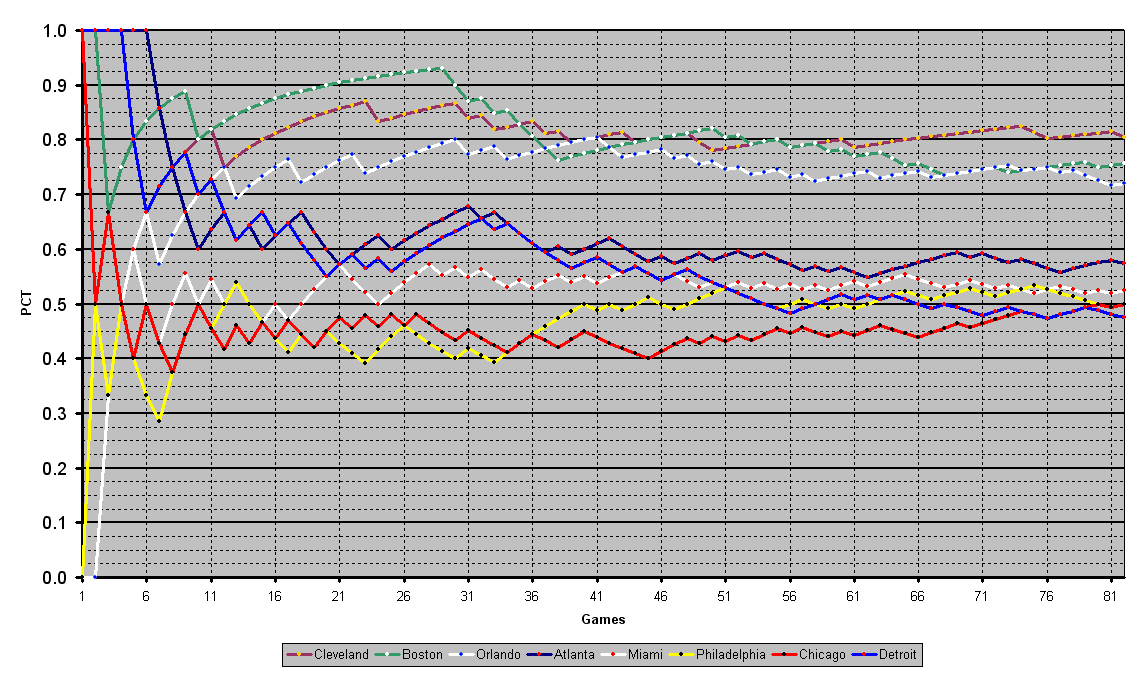 2009 NBA Playoffs qualfying, Eastern Conference.